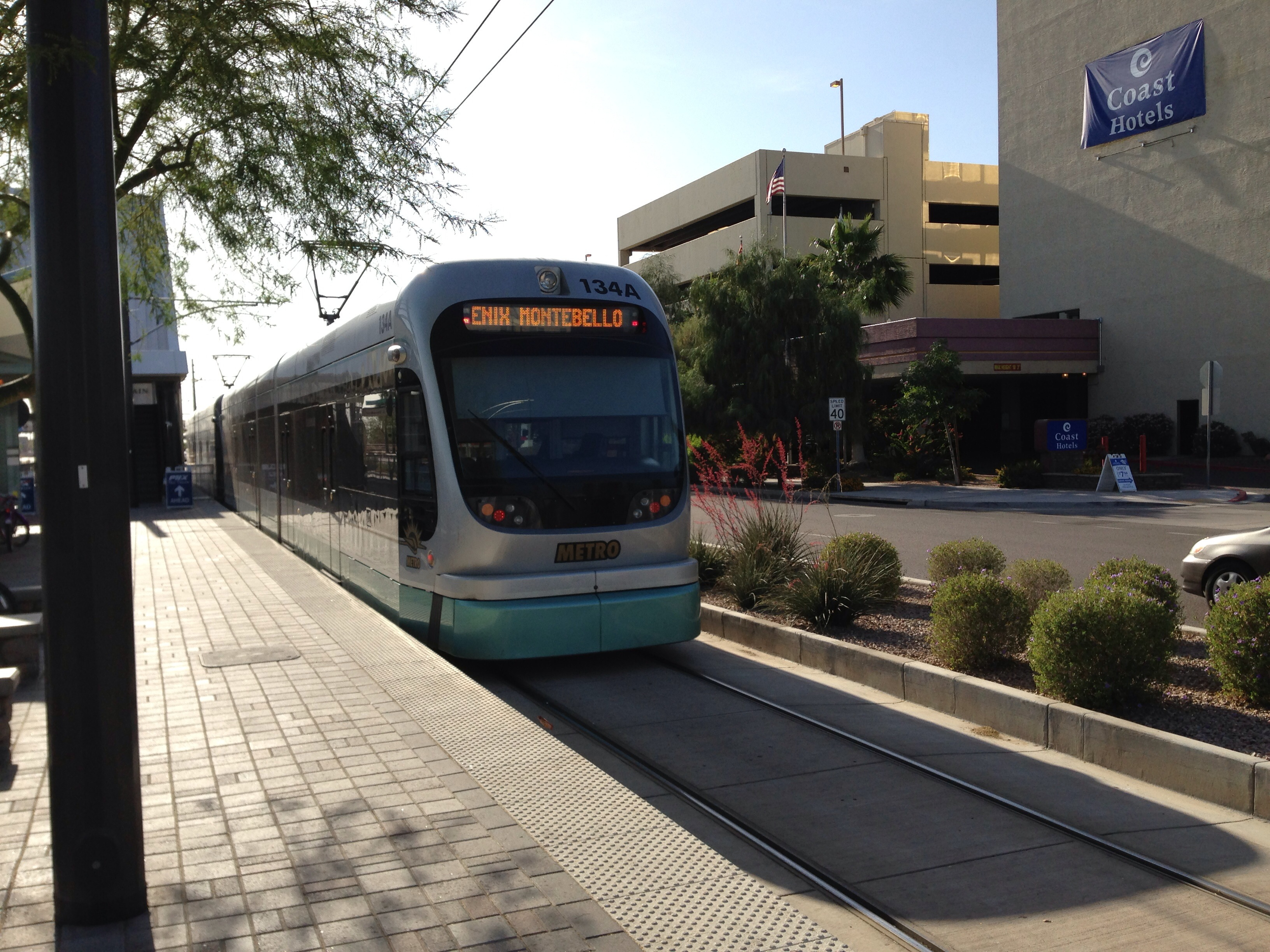 A Phoenix Metro Kinki Sharyo light rail vehicle at the 44th St/Washington station.